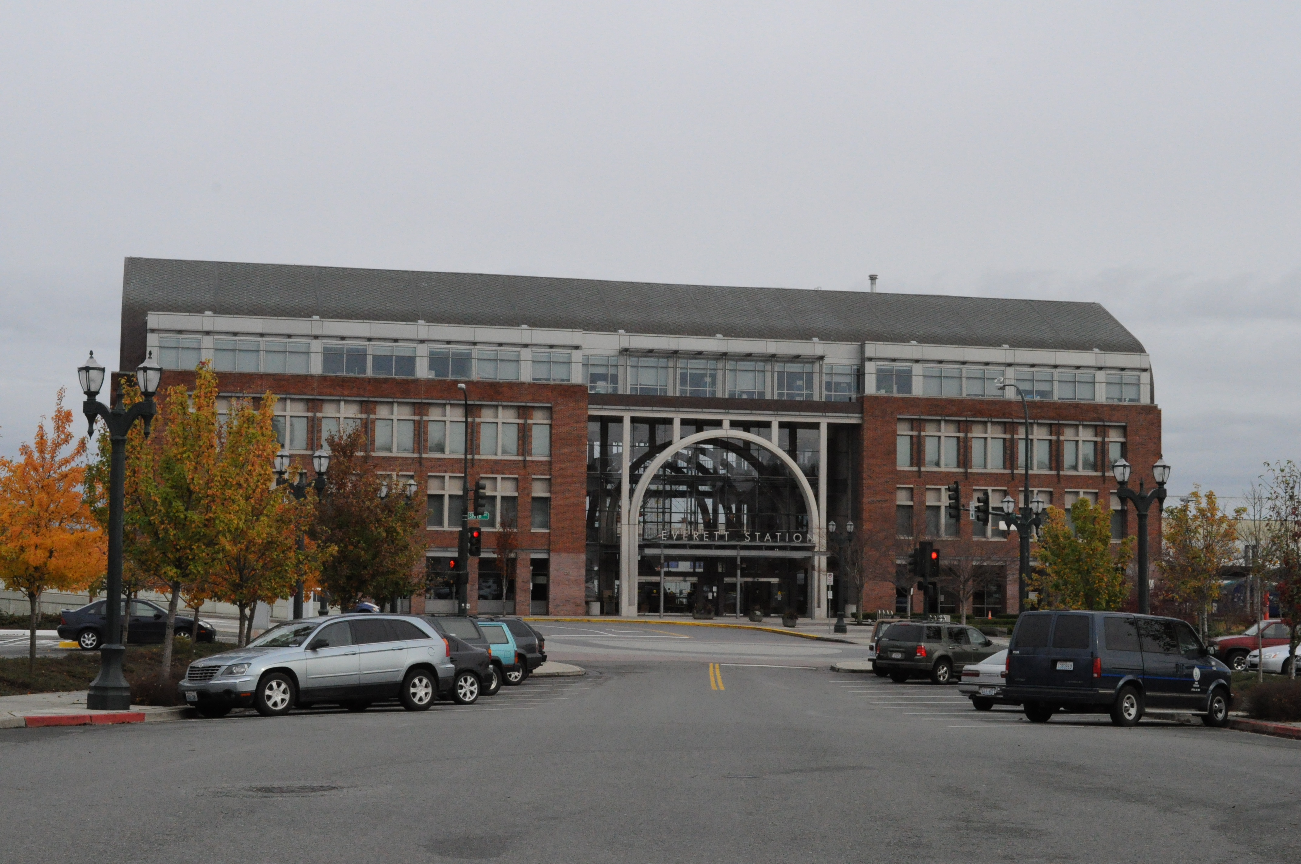 Everett Station, 3201 Smith Avenue, Everett, Washington, USA. Amtrak station, Greyhound Bus station, classrooms, meeting facilities, etc. The building also is effectively a museum, with a permanent collection of early work by artist Kenneth Callahan donated by Weyerhaeuser.